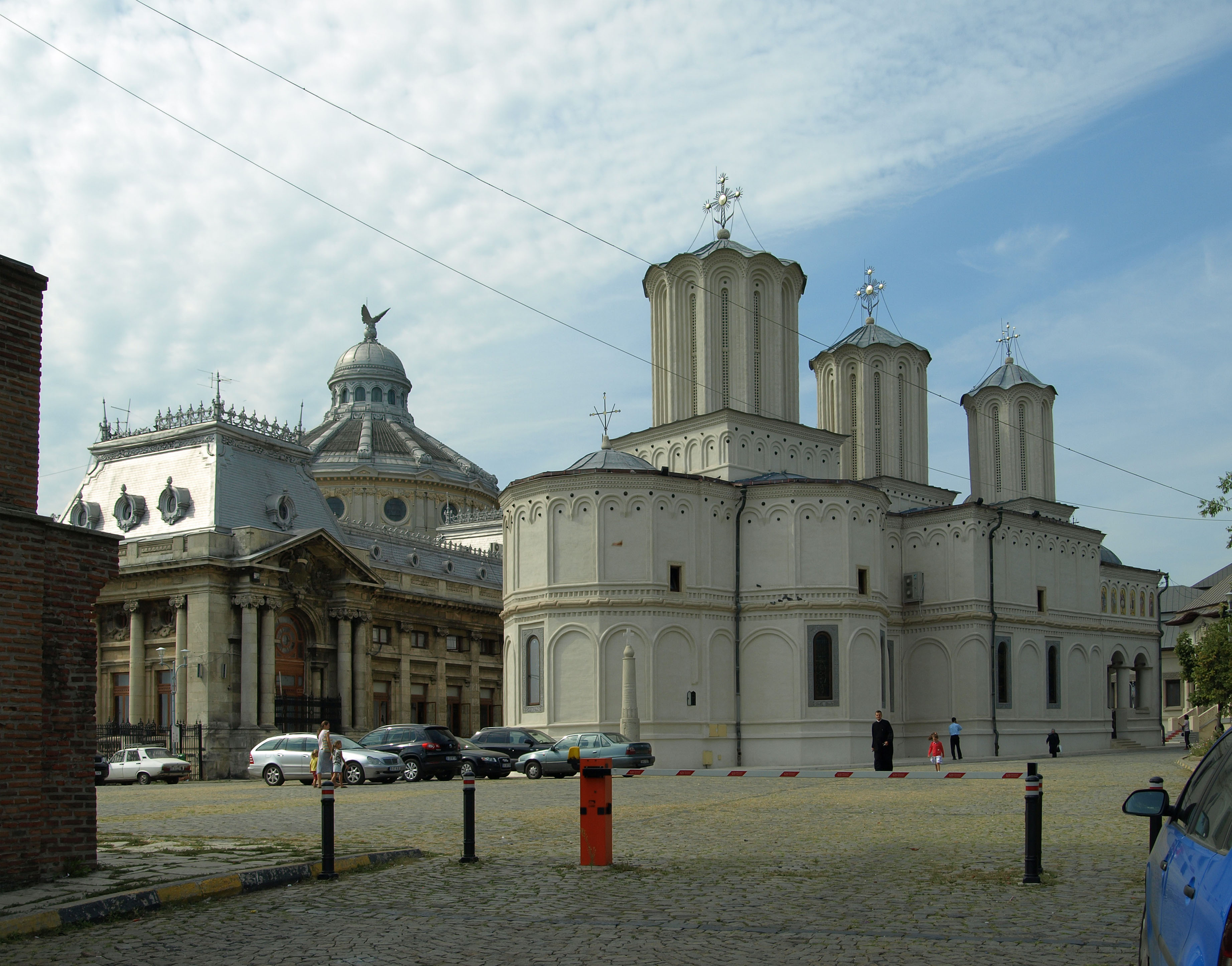 Patriarchy Hill in Bucharest, Romania 24 August 2009, from left to right the former Parliament Building and the Romaniana Orthodox Patriarchal Cathedral